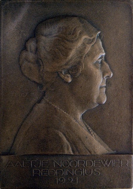 Aaltje Noordewier-Reddingius, plaque by Eduard Telcs (1921). In her parental home in Deurne (Netherlands))